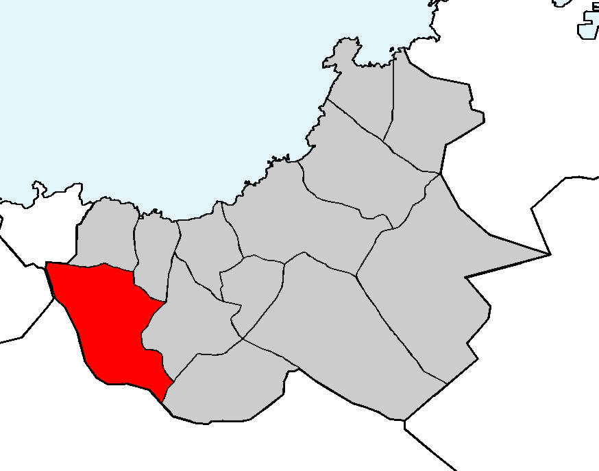 Location of the parish of Monteagudo in the municipality of Arteixo (Galicia, Spain)